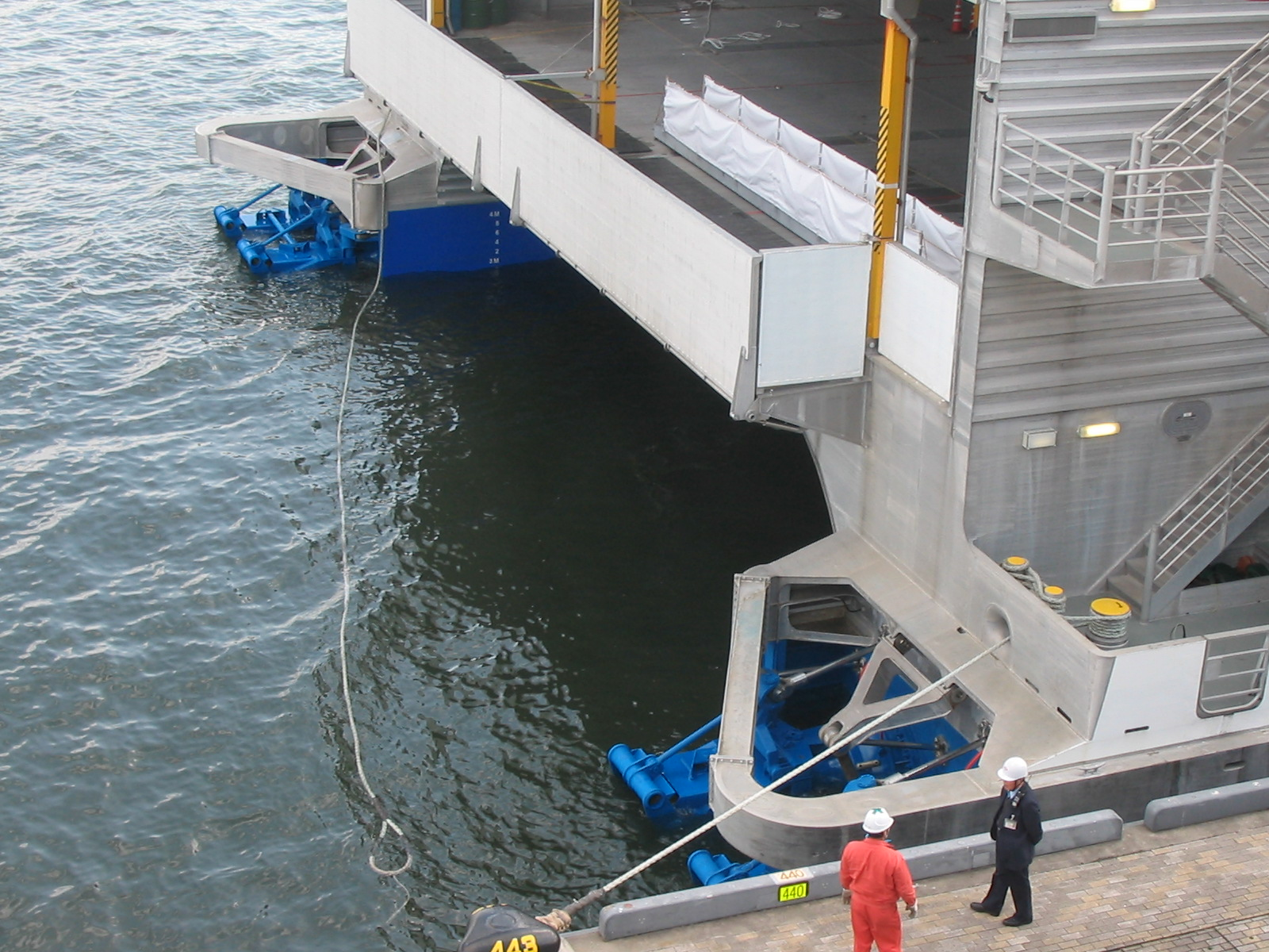 Pump-jet on High speed car ferry "Natchan World" at OSANBASHI YOKOHAMA INTERNATIONAL PASSENGER TERMINAL. Yokohama City,Kanagawa Pref,Japan. March,7,2009